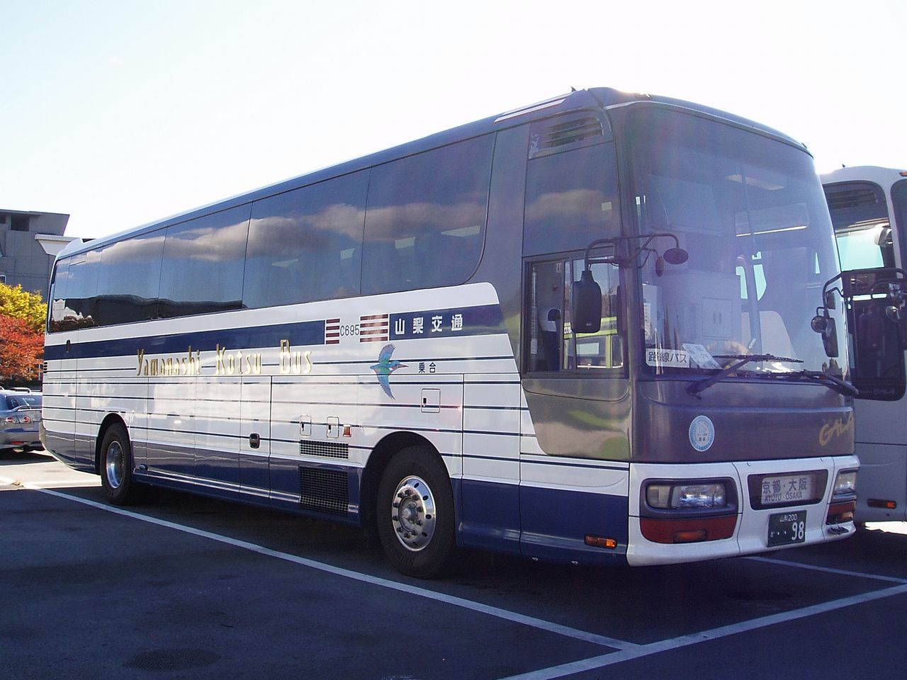 Yamanashi Kotsu Night Bus for Highway Bus "Crystal Liner" Isuzu KL-LV774R2 2007-11-13 Photo by Cassiopeia_sweet. This picture is obtaining and photoing permission of the persons concerned.